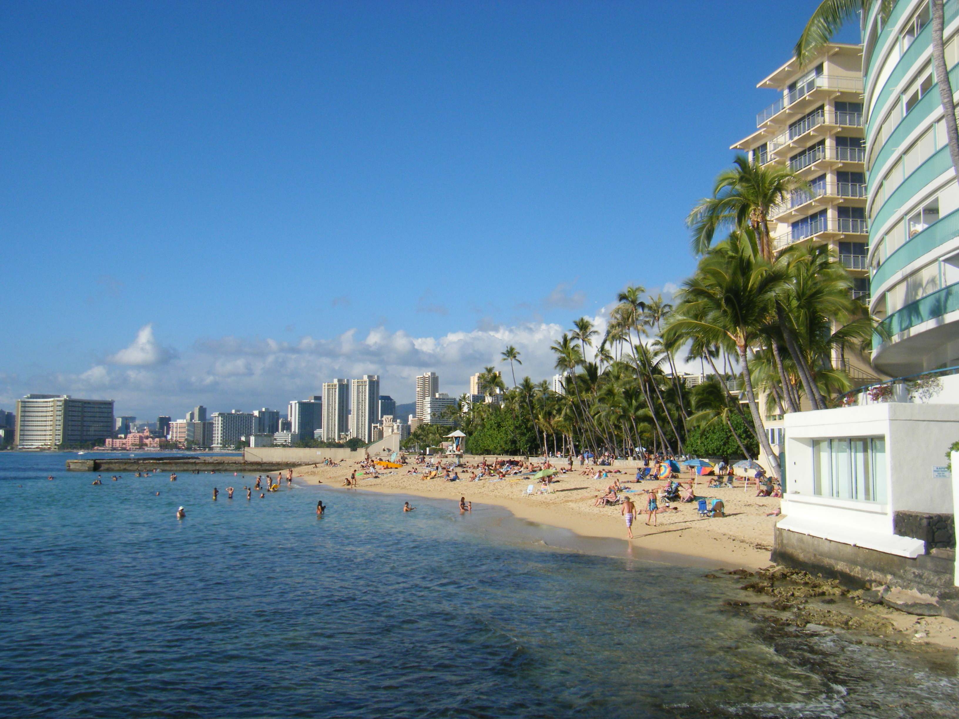 Kaimana Beach Park in Diamond Head, Honolulu, Hawaii